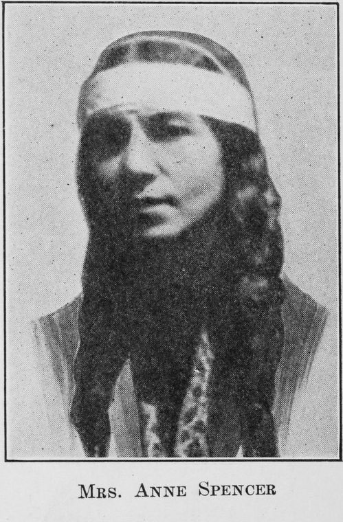 Photo of African-American poet Mrs. Anne Spencer from Lynchburg, Virginia. Courtesy of the New York Public Library Digital Collection.